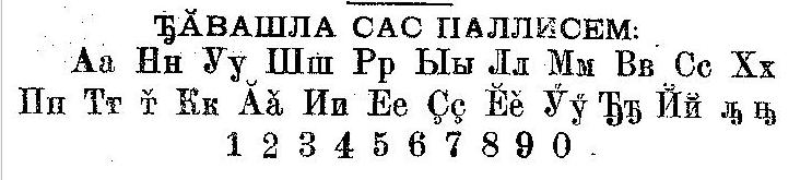 Chuvash alphabet (1873 version)